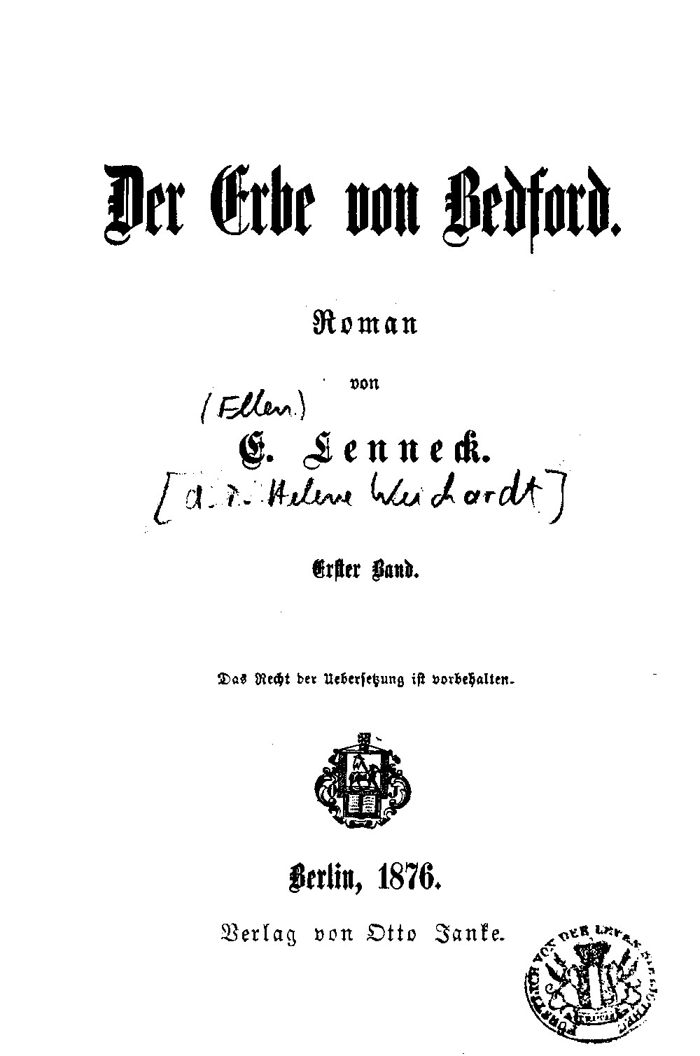 Scan from title page of a German novel printed in 1876. Author died in 1880. The novel has entered the public domain.